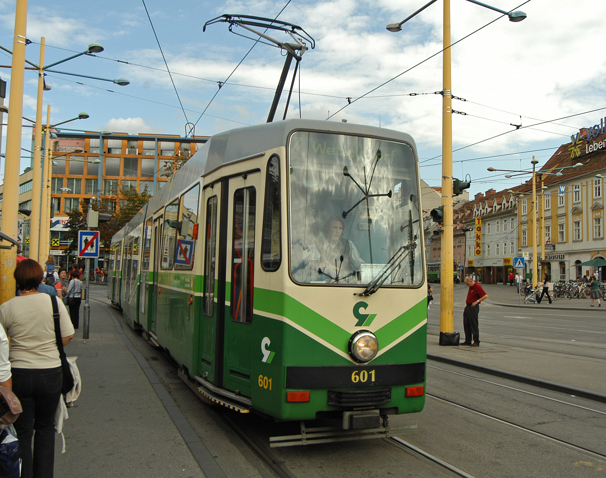 Please report references to kulacgmx.at.